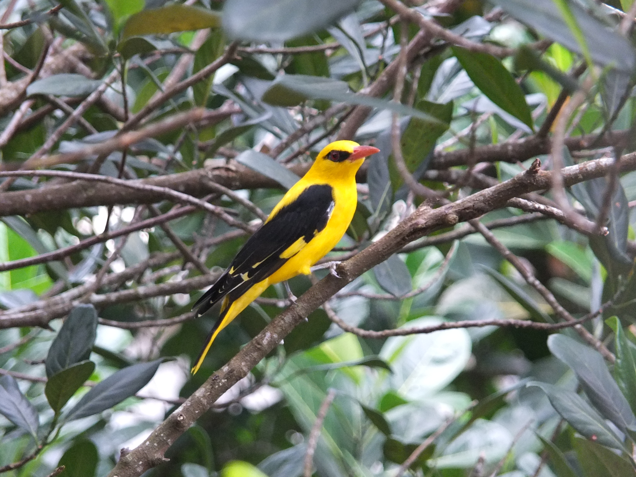 Indian Golden Oriole